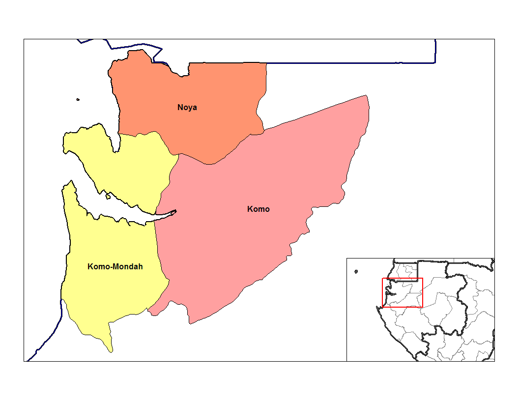 Map of the departments of Estuaire province in Gabon. Created by Rarelibra 20:20, 2 January 2007 (UTC) for public domain use, using MapInfo Professional v8.5 and various mapping resources.